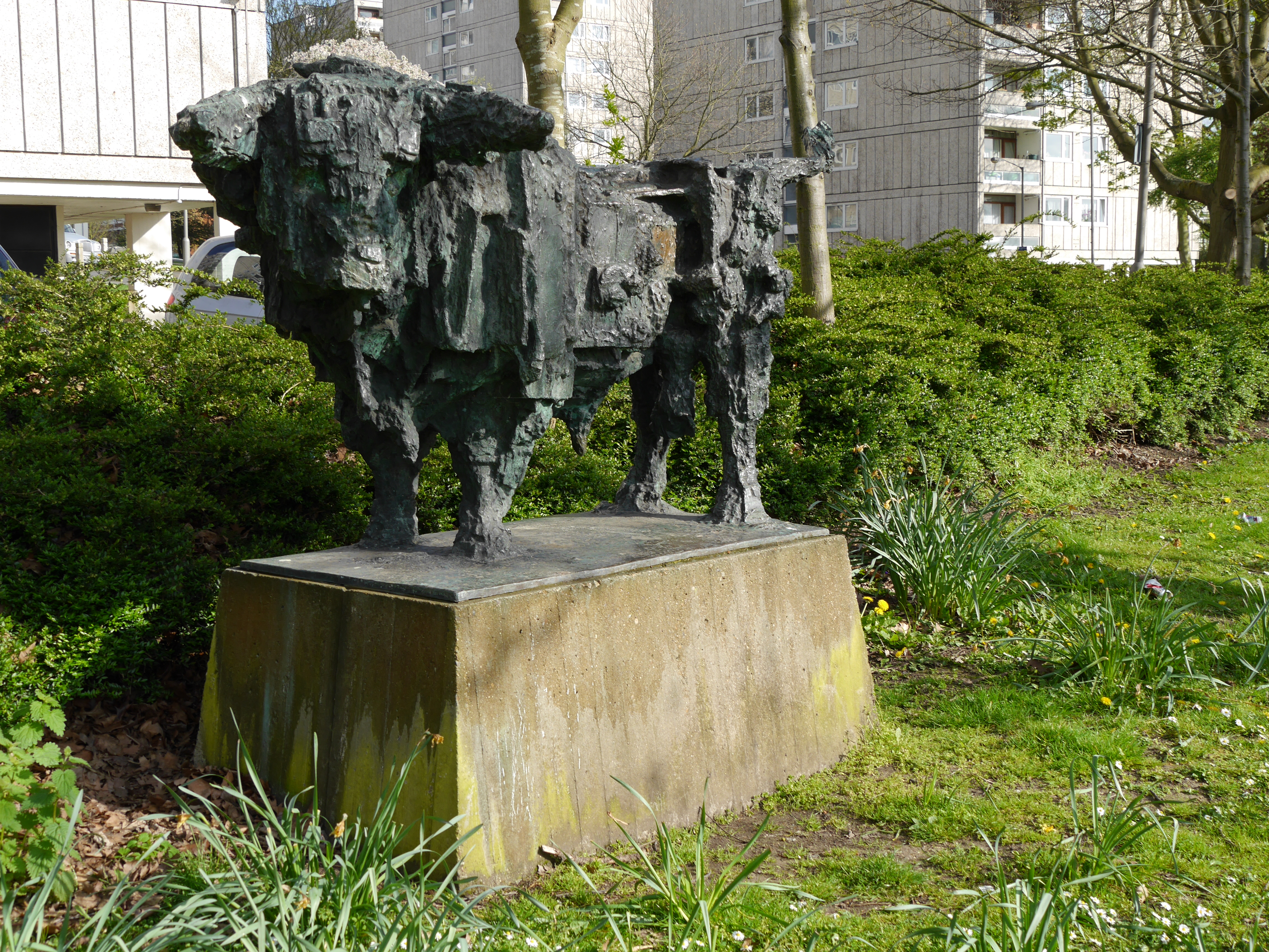 THE BULL AT FOOT OF DOWNSHIRE FIELD ALTON ESTATE Wikidata has entry Q17532147 with data related to this building.